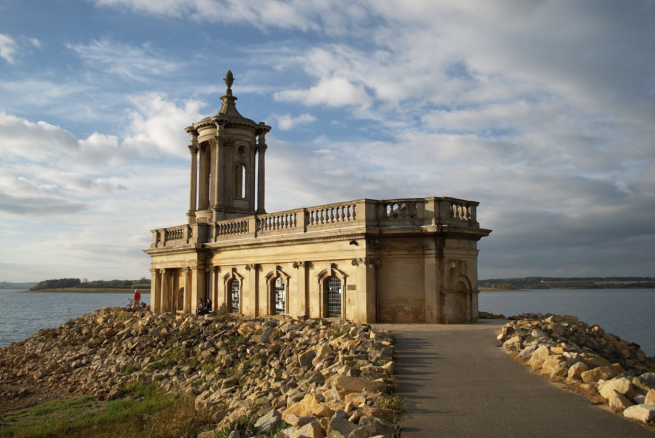 Normanton Church Museum, Rutland Water